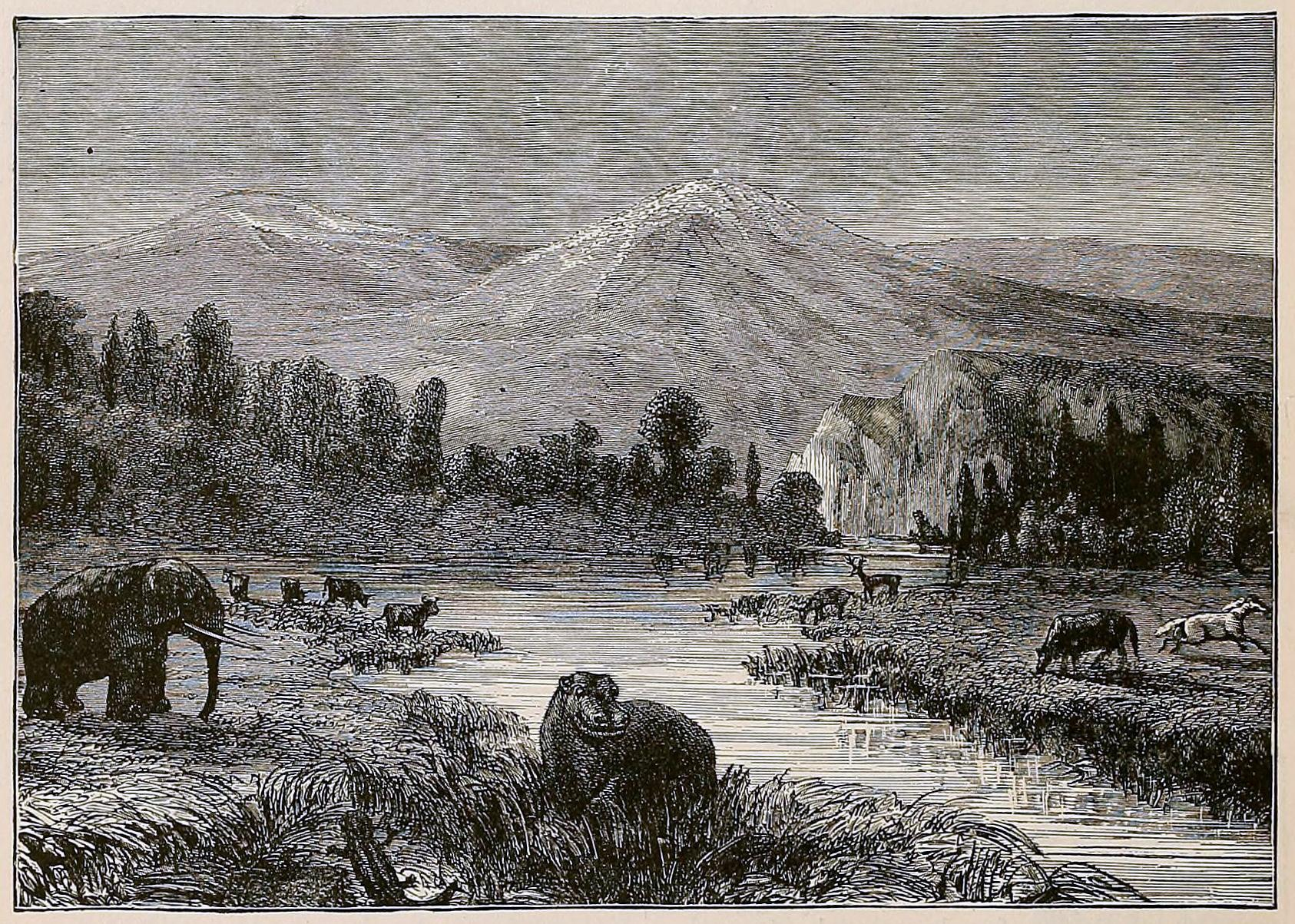 Cyclopedia universal history : embracing the most complete and recent presentation of the subject in two principal parts or divisions of more than six thousand pages by Ridpath, John Clark, 1840-1900 Publication date 1895 Topics World history, Ethnology, World history Publisher Boston : Balch Bros. Collection umass_amherst_libraries; blc; americana Digitizing sponsor Boston Library Consortium Member Libraries Contributor UMass Amherst Libraries Language English Volume v.1 Some other editions have title: Ridpath's universal history Includes index pt. 1. v. 1-9. History of man -- pt. 2. v. 10-16. History of events Bookplateleaf 0003 Call number 2415773 Camera Canon 5D Identifier cyclopediauniver197274ridp Identifier-ark ark:/13960/t01z4xr3r Ocr ABBYY FineReader 8.0 Openlibrary_edition OL24341853M Openlibrary_work OL15355434W Page-progression lr Pages 446 Ppi 400 Scandate 20100721215612 Scanner Scanningcenter boston Full catalog record MARCXM